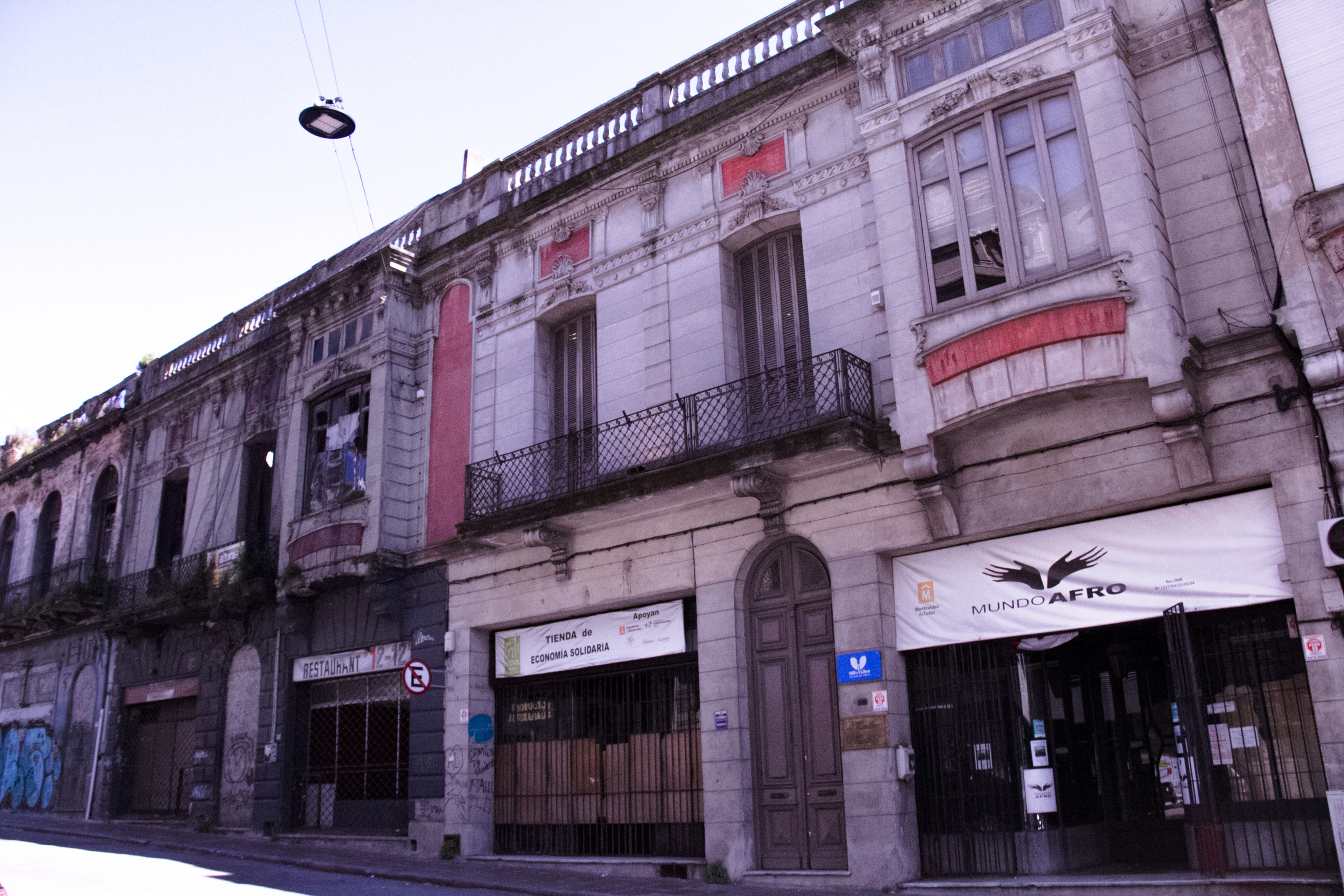 Frente del local de la organización Mundo Afro. Montevideo, Uruguay.